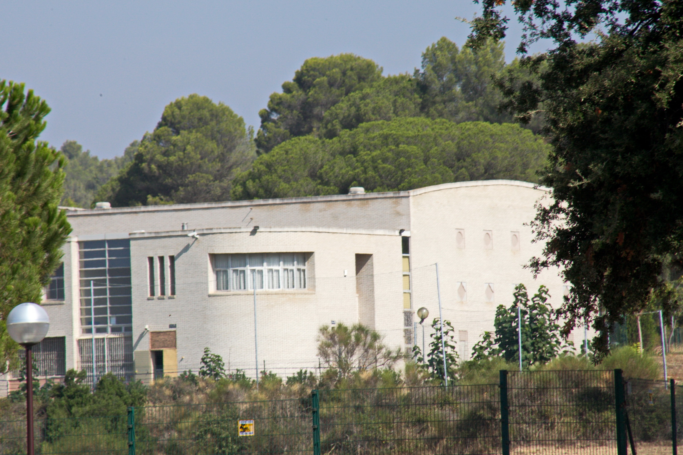 Japanese School in Barcelona in Sant Cugat del Vallès